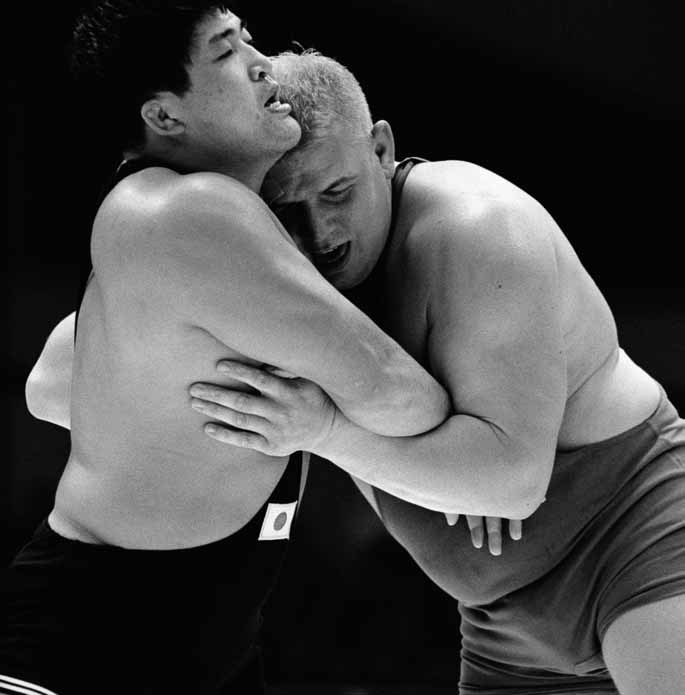 Masa Saito vs. Arne Robertsson, Tokyo 1964